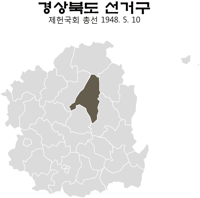 Andong B, Gyeongsangbuk-do, Republic of korea constituency of the Constituent Assembly election